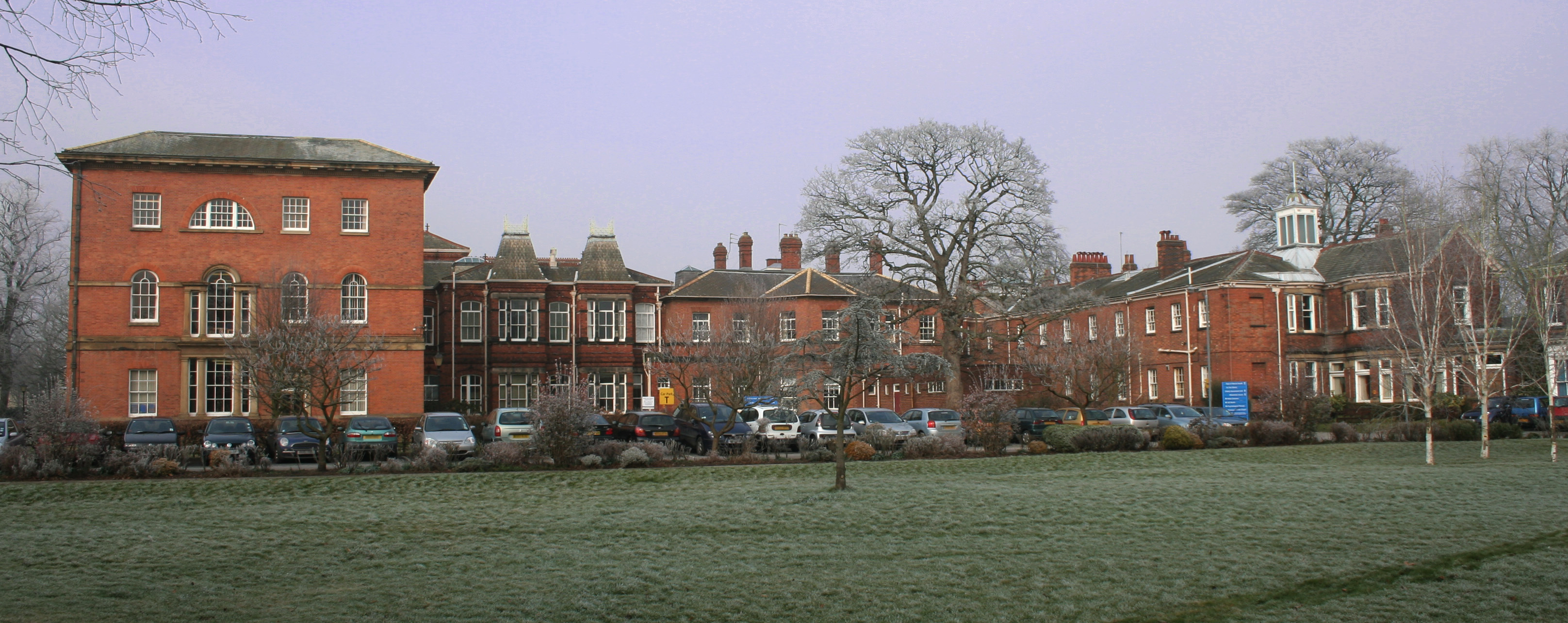 Front of Bootham Park Hospital, York, North Yorkshire, YO31